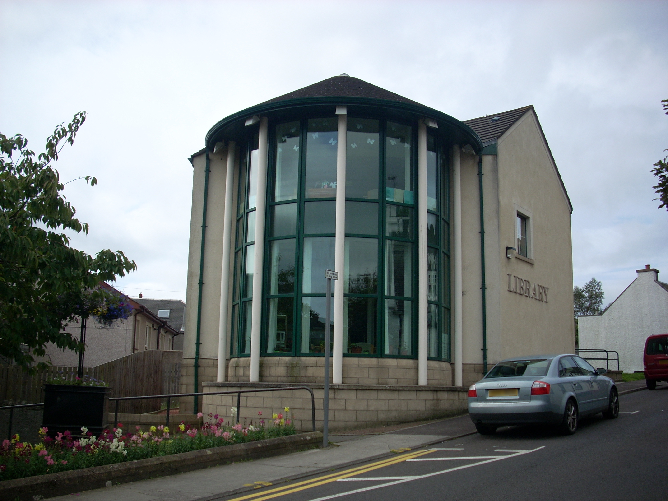 West Kilbride library in West Kilbride, North Ayrshire, Scotland. Photo by Dreamer84, taken on 30 August 2007.